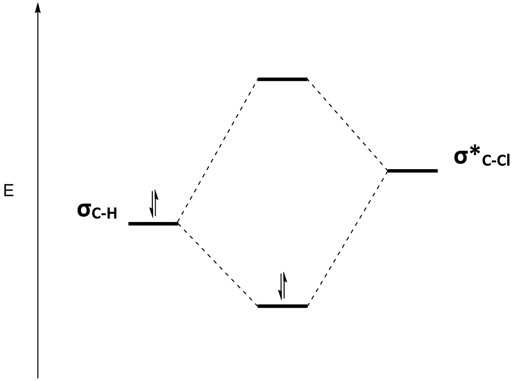 Molecular orbital energy diagram showing the mixing of bonding C-H orbital with anti-bonding C-Cl orbital